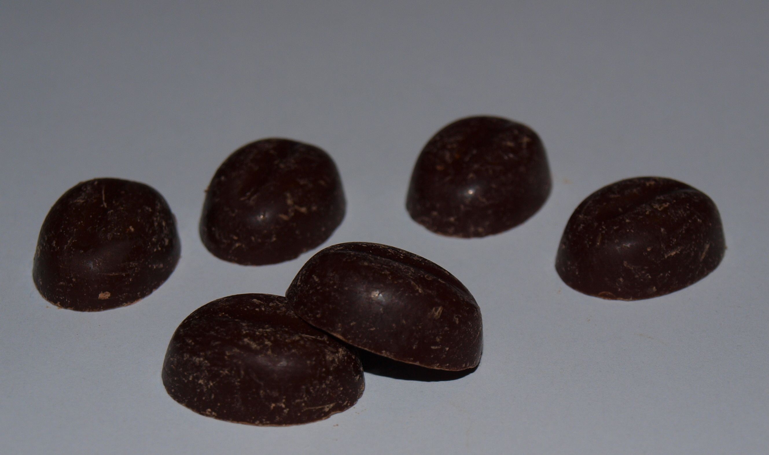 The Norwegian chocolate "Mokkabønner".